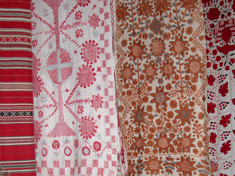 Rushnyk - Ukraine embroidered decorative towels. Pereyaslav-Hmelnytsky, Ukraine. Українські рушники. Музей рушника, Переяслав-Хмельницький, Україна.